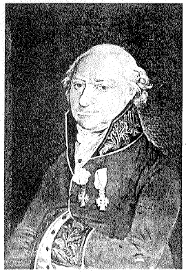 Emanuel Blom (1747-1826), Danish army officer and prefect